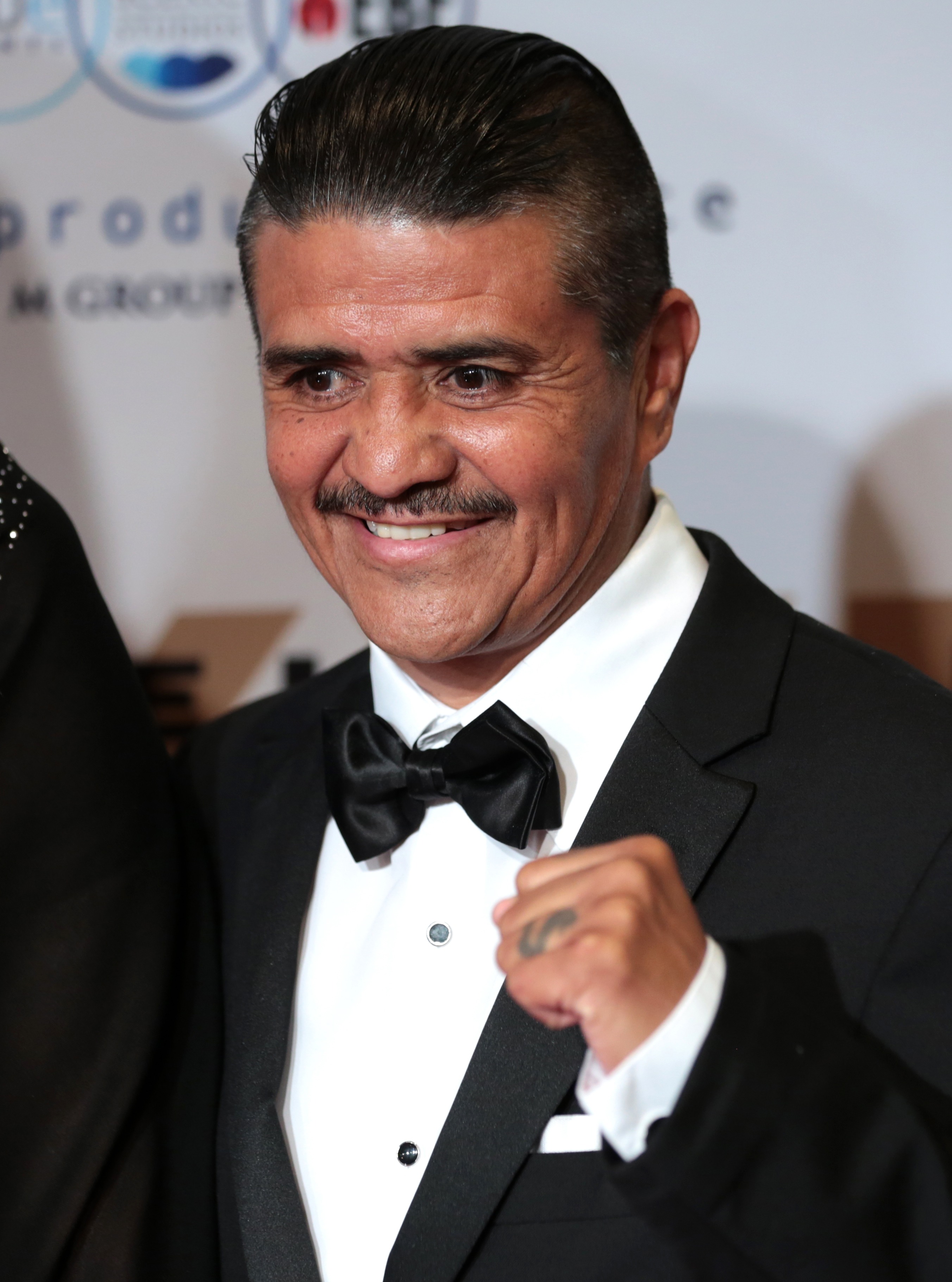 Michael Carbajal at Celebrity Fight Night XXIII in Phoenix, Arizona.